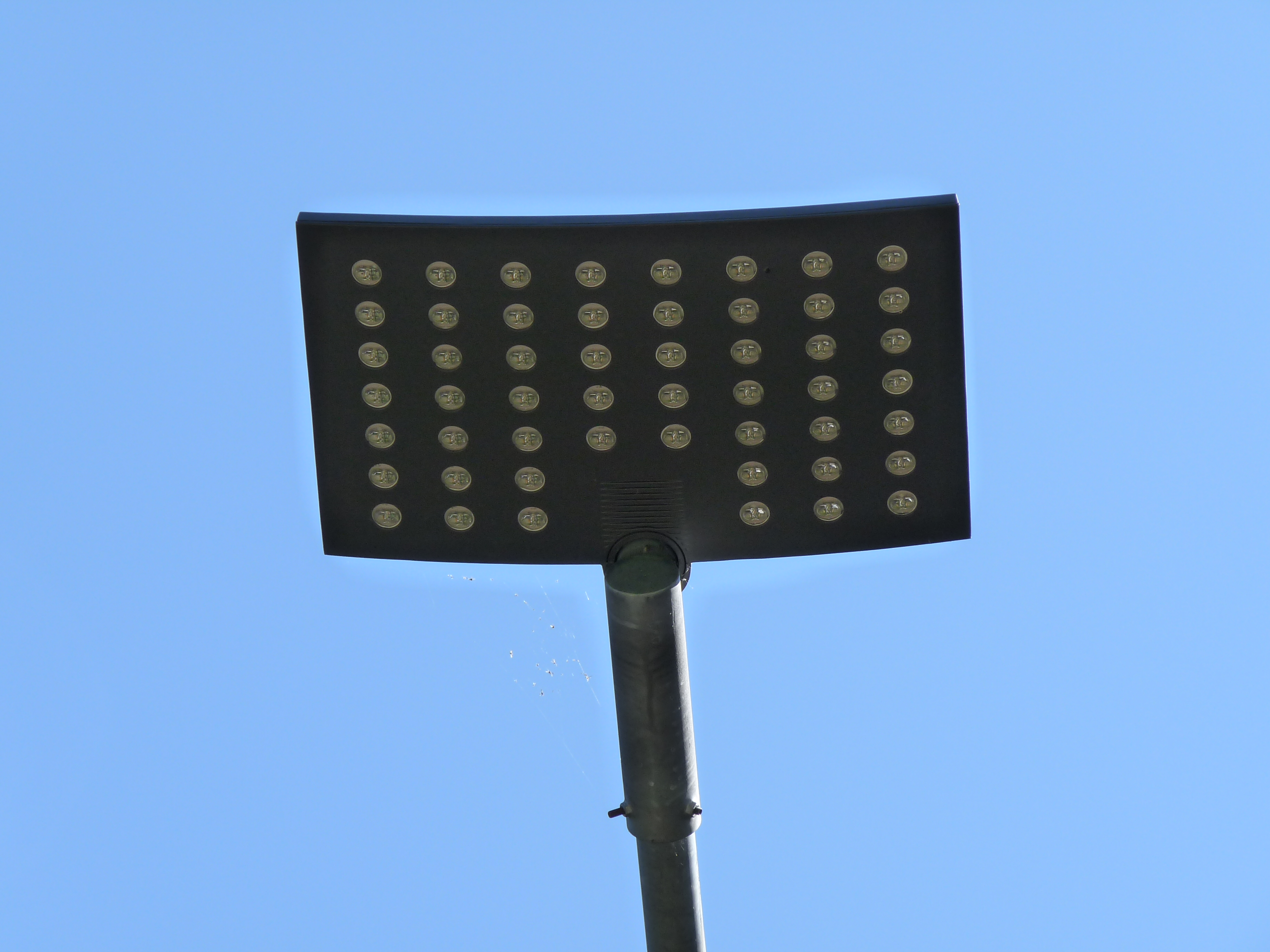 LED streetlamp in Tallinn